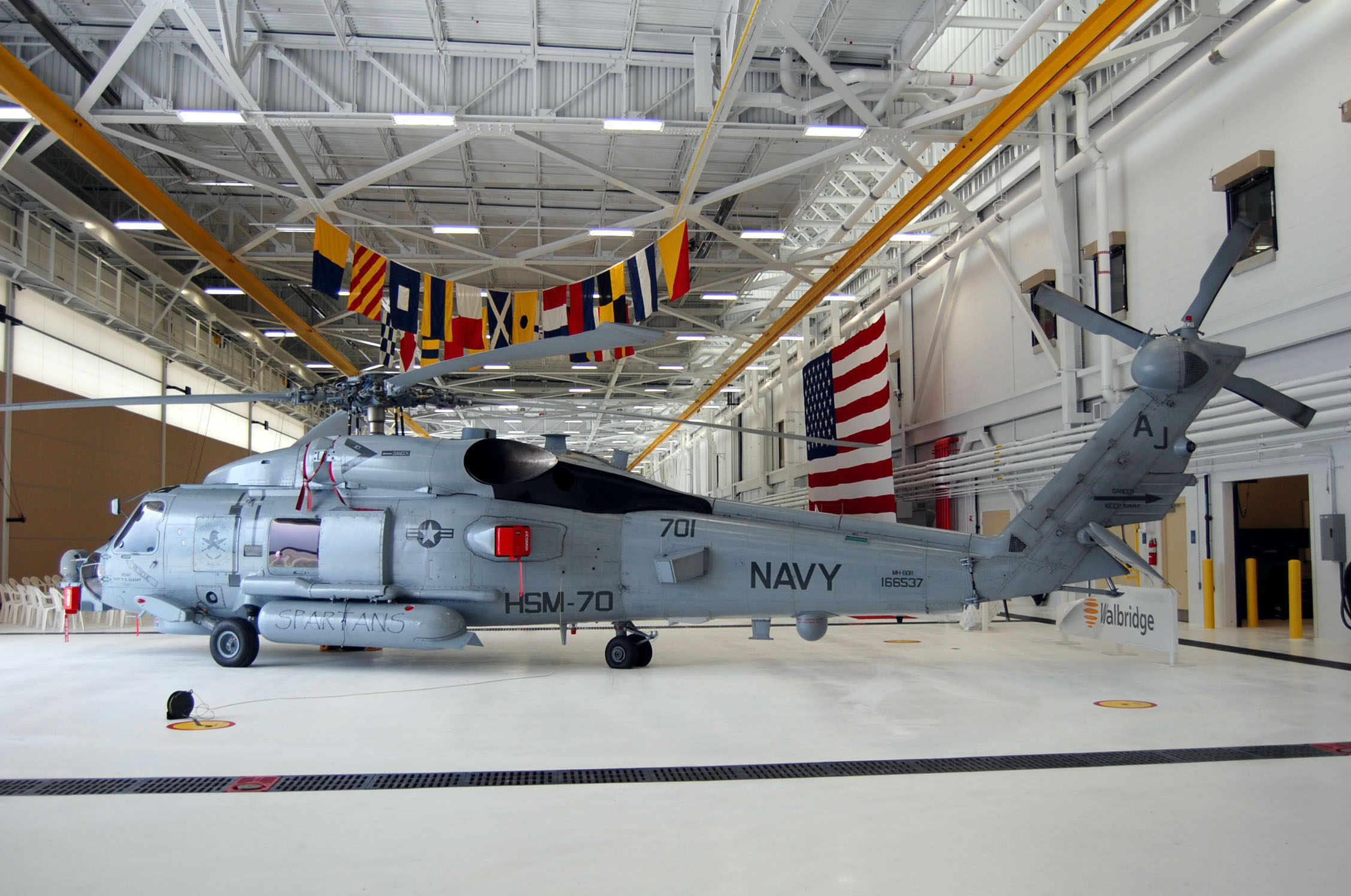 JACKSONVILLE, Fla. (June 30, 2009) An MH-60R "Romeo" varient of the Sea Hawk helicopter is displayed in the new Helicopter Hangar 1122 during the ribbon-cutting ceremony to officially open the new facility at Naval Air Station Jacksonville. (U.S. Navy photo by Kaylee LaRocque/Released)